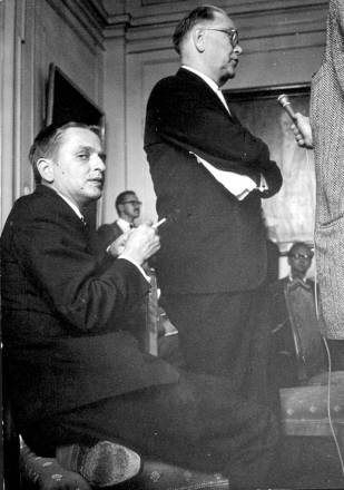 Prime Minister Tage Erlander and Olof Palme. Olof Palme (left, with cigarette in hand) and Tage Erlander answer journalists' questions.